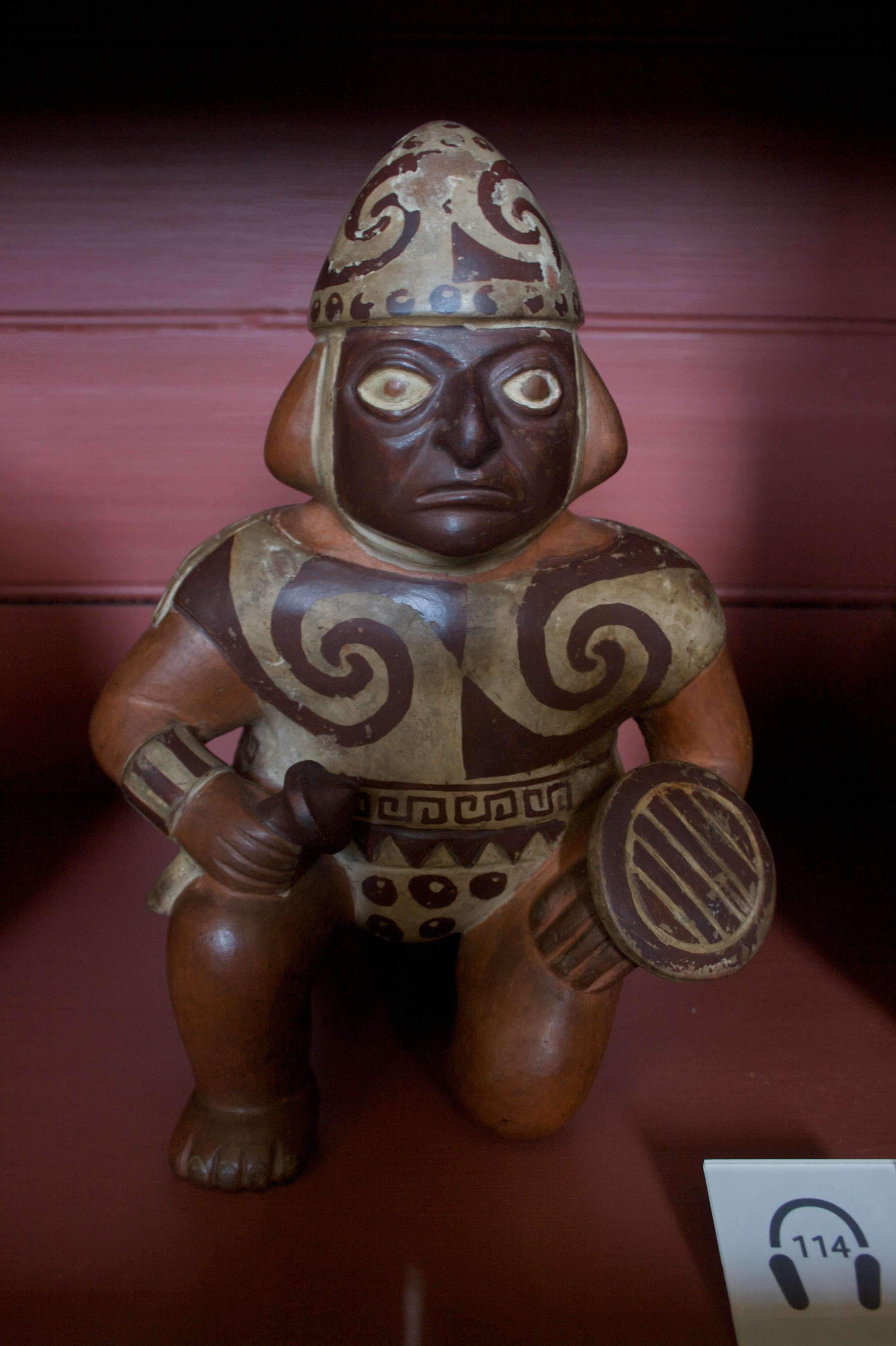 Moche warrior pot. Object 48 of 100. AD 100-700. Peru, South America. Pottery, AM,P.1. In the British Museum.